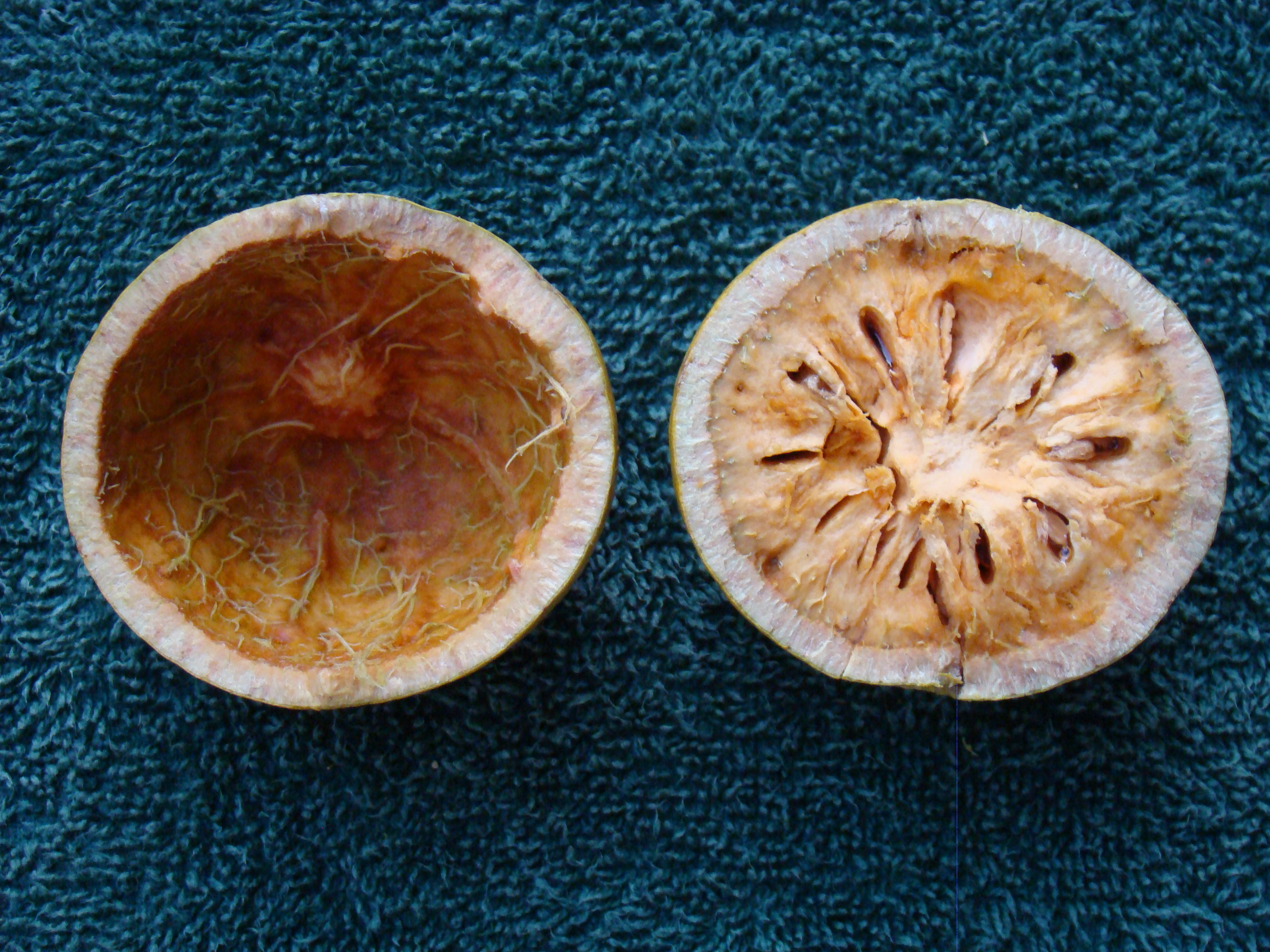 Flesh scooped out of one of the halves of a ripe Bael fruit (cracked open by a hammer), collected from the grounds of the Mounts Botanical Garden, West Palm Beach, Florida.